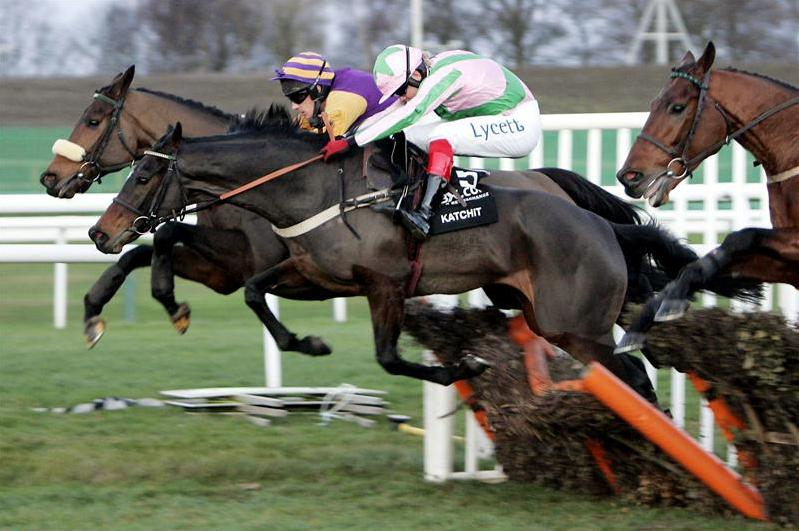 Picture of Katchit from the Fighting Fifth at Newcastle Racecourse